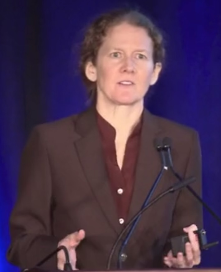 The FTC held a hearing on competition and consumer protection issues in U.S. broadband markets on March 20, 2019 at the FTC's Constitution Center in Washington, DC, as part of its Hearings initiative. This is a video recording of the morning session which includes: Presentation on Technological Developments in Broadband Networking by KC Claffy, University of California San Diego This Hearing examined developments in U.S. broadband markets, technology, and law since the FTC staff issued reports related the topic in 2007 and 1996.